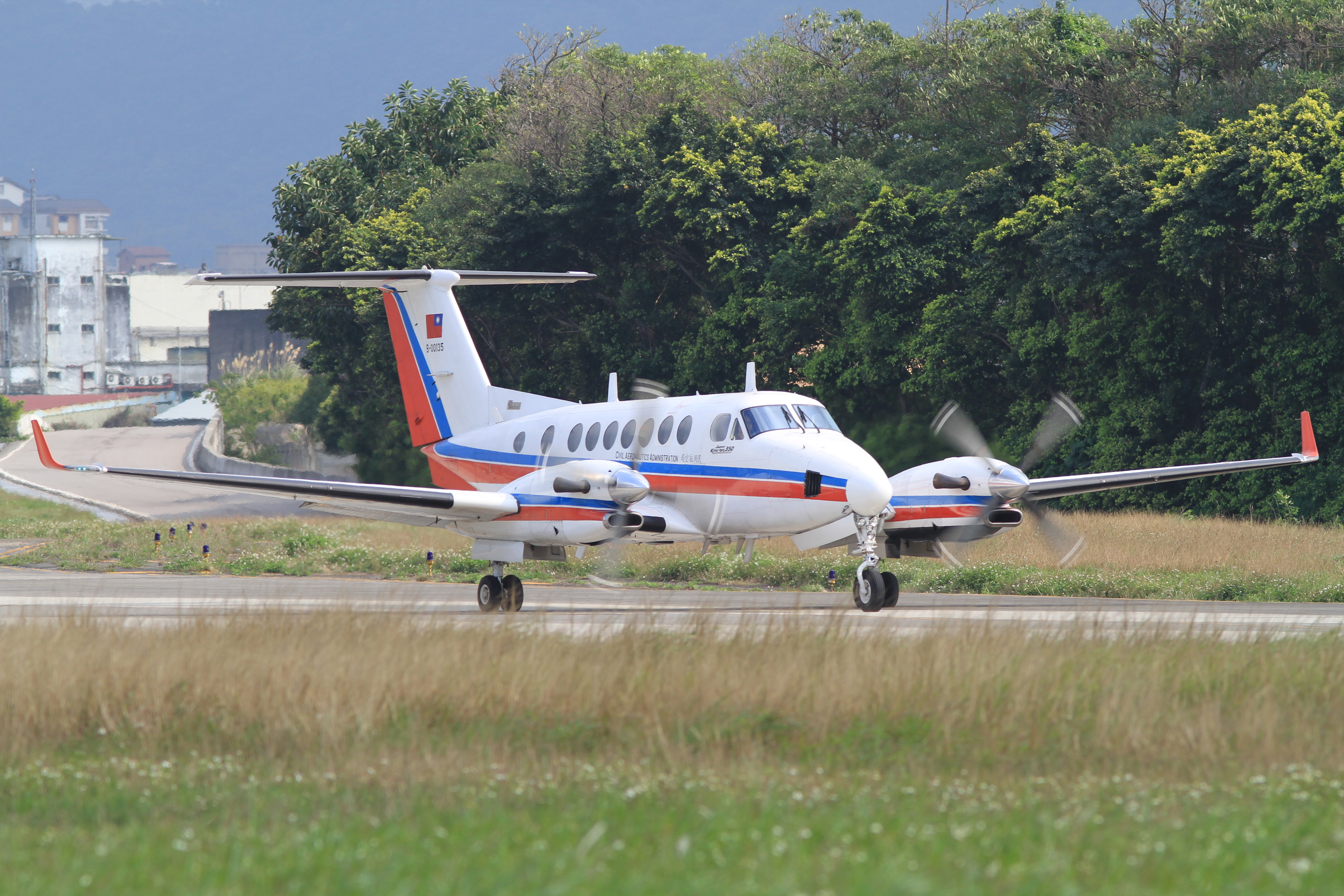 Taiwan CAA(Civil Aeronautics Administration), Beechcraft King Air 350, Taipei Songshan Airport.